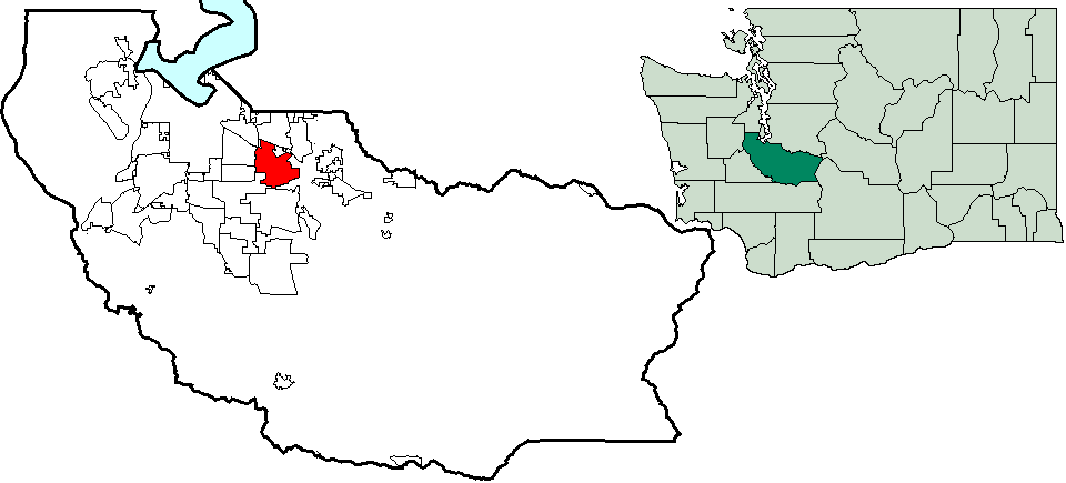 Map of Puyallup, Washington within Pierce County, with county highlighted on Washington map. Created by Locke Cole from United States Census Bureau maps (with inspiraton from Tradnor). Commons:Category:Pierce County, Washington